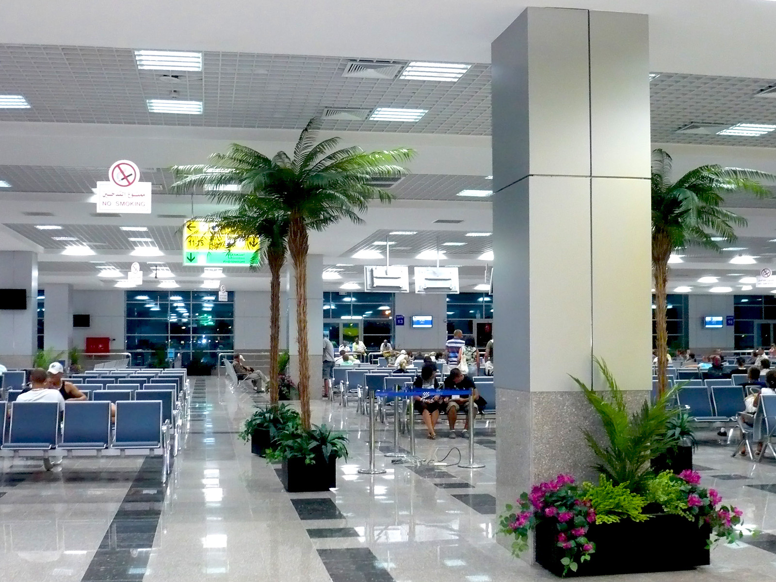 Interior of passengers terminal at Hurghada International Airport.